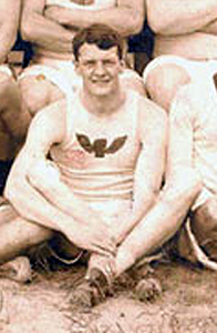 Robert Cloughen, athlet, medalwinner at the 1908 Olympic Games in London The Photo shows Cloughen as a teammate of the I-AAC 1907 Amateur Athletic Union Champion Team photography, adapted reproduction, no restrictions on use Copyright: free of charges